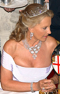 Princess Michael of Kent, wife of Prince Michael of Kent